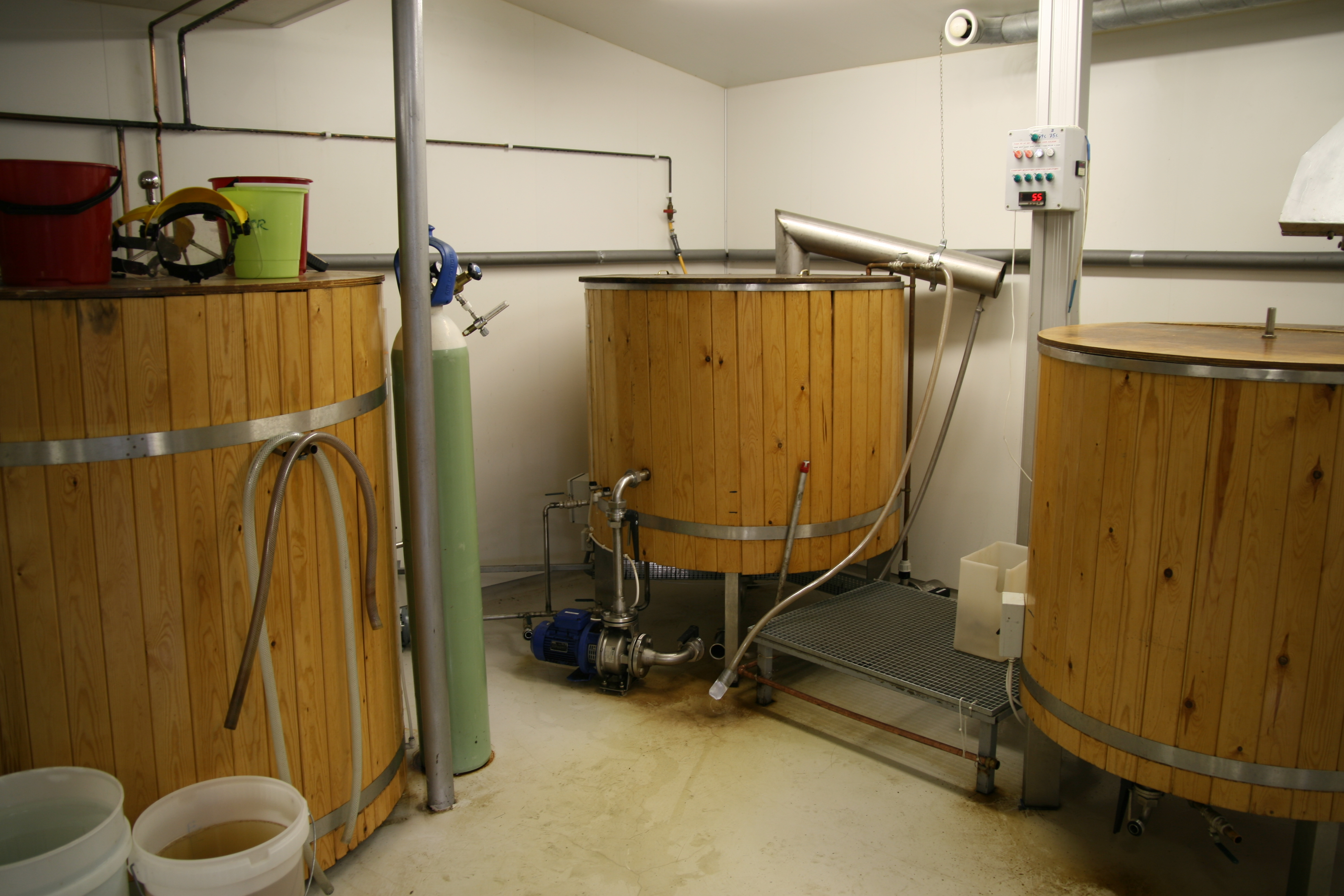 Mash tuns at Haandbryggeriet, Drammen, Norway